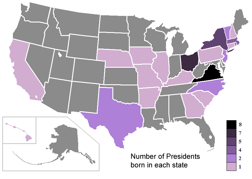 American presidents' place of birth - number born from each state as listed on List of United States Presidents by place of birth.